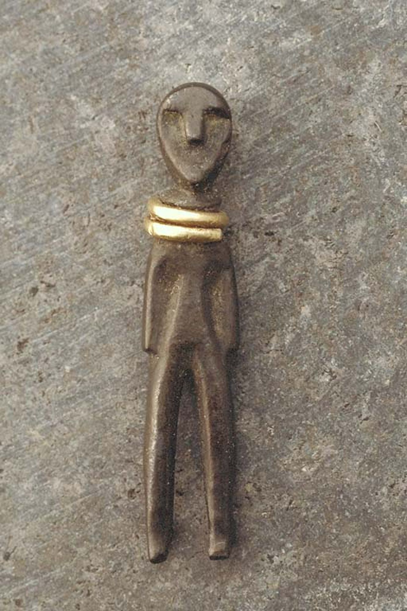 Kymbogubben, Migration Period